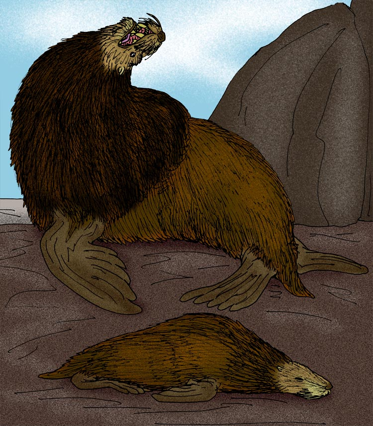 Reconstruction of the Late Miocene otariid Thalassoleon mexicanus, from the Californian coast.